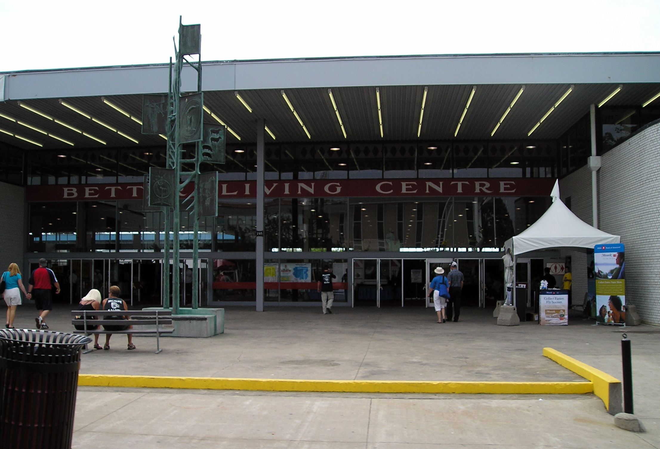 Picture of the modernist Better Living Centre building on the CNE Grounds. Shot on August 25th 2005, during the CNE.